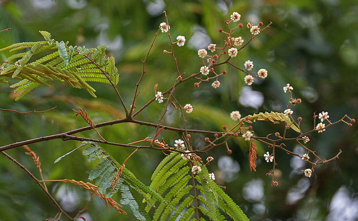 Acacia pennata in Talakona forest, in Chittoor District of Andhra Pradesh, India.